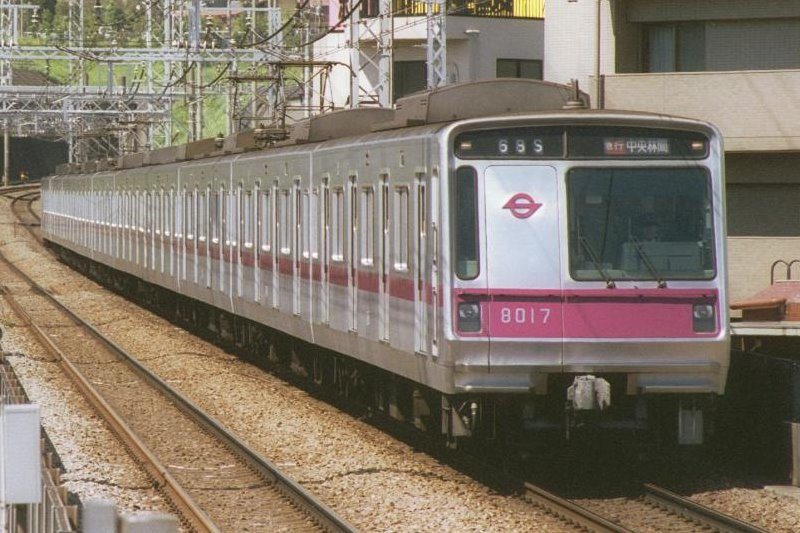 the Teito Rapid Transit Authority 8000 series train approaching Azamino Station on the Tōkyū Den-en-toshi Line